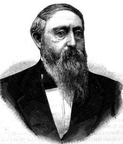 George W. Webber, US Representative from Michigan